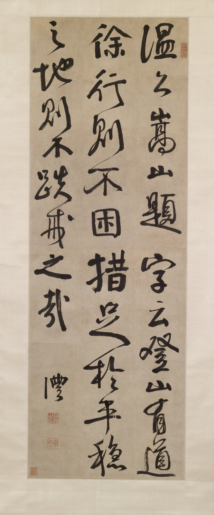 An important government official and poet, Qian Feng [Ch'ien Feng] is remembered for his courage in speaking out against corruption in high places. Here, he as written that Sima Guang [Ssu-ma Kuang] (1019-1086), a Song-dynasty historian and conservative politician, had inscribed these words at the top of a mountain: "The secret of mountain climbing is to walk slowly, so that you will not tire, and to put down your feet on level spots, so that you will not stumble. This one should know."